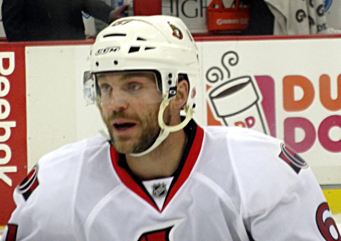 Ottawa Senators defenseman Andre Benoit during game two of their second round series against the Pittsburgh Penguins, May 17, 2013 at Consol Energy Center in Pittsburgh, PA.